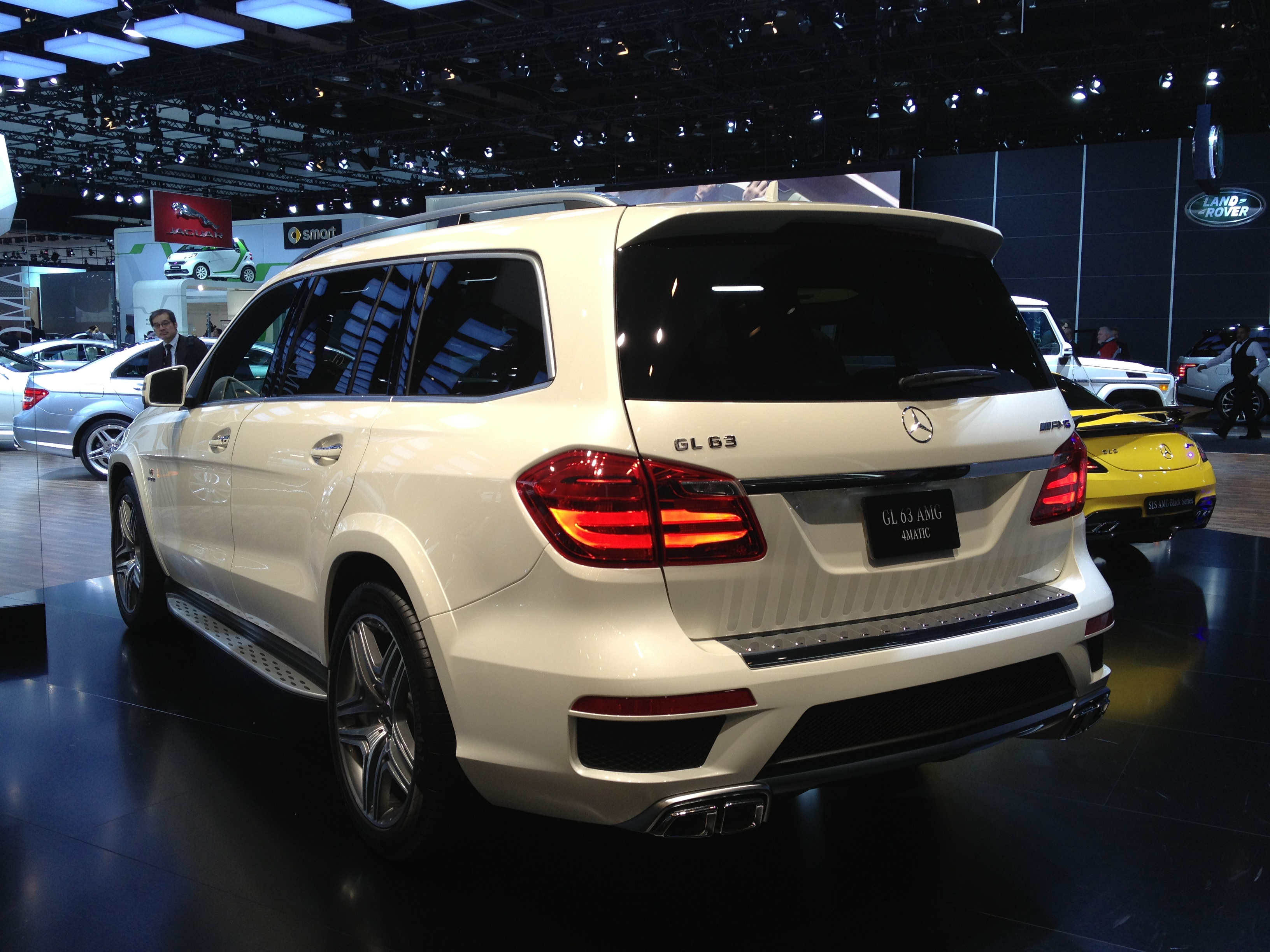 2013 North American International Auto Show Detroit, Michigan